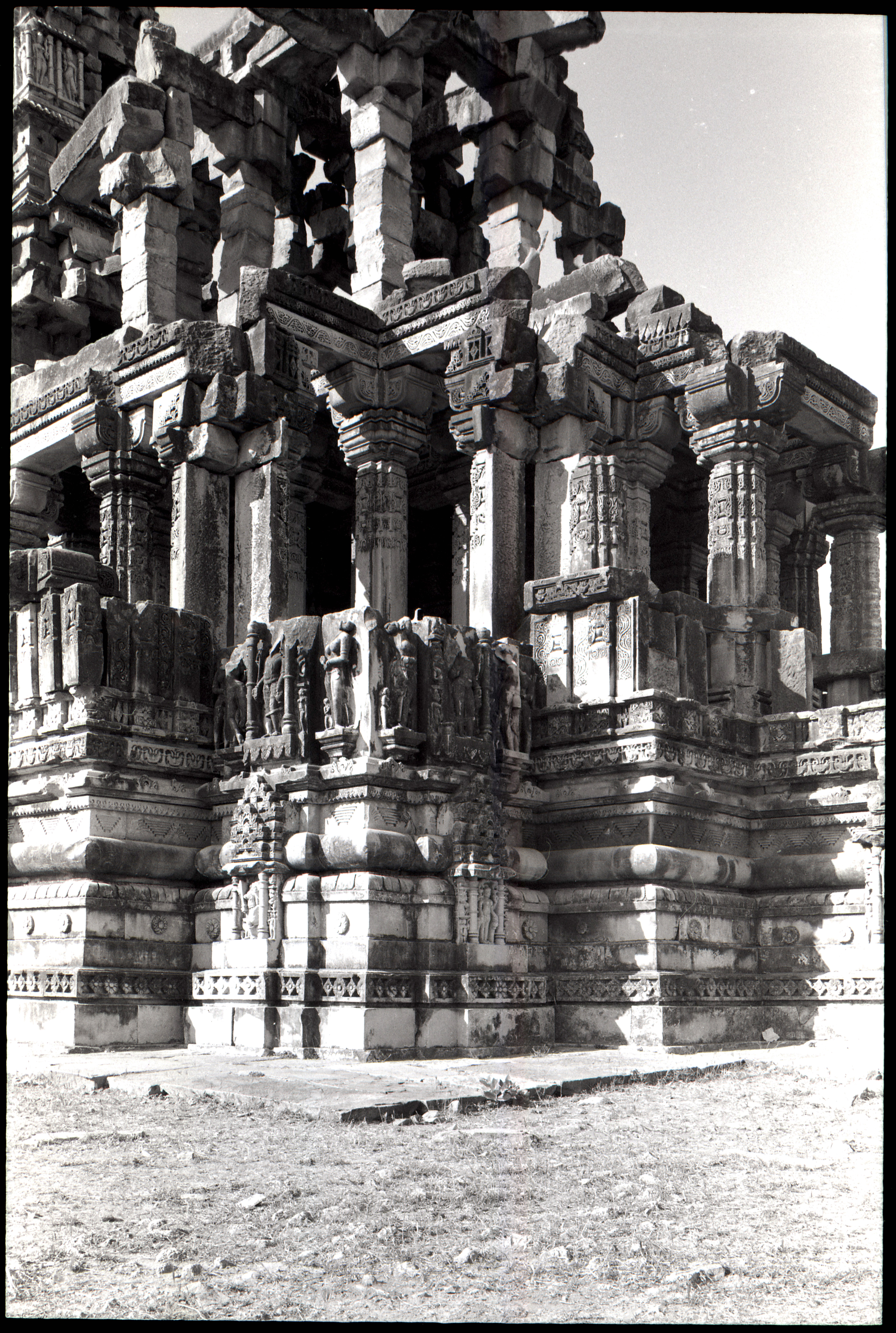 Kakanmath temple, Sihoniya, maṇḍapa from the south east.